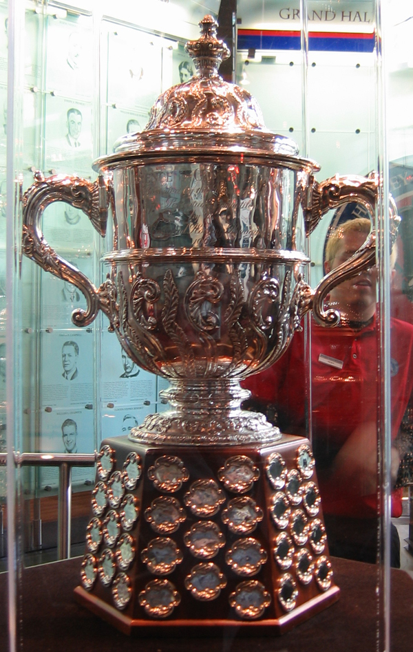 Clarence S. Campbell Bowl on display at the Hockey Hall of Fame in Toronto. The trophy is awarded annually to the NHL's Western Conference champion. Taken by Kmf164 on November 19, 2005.